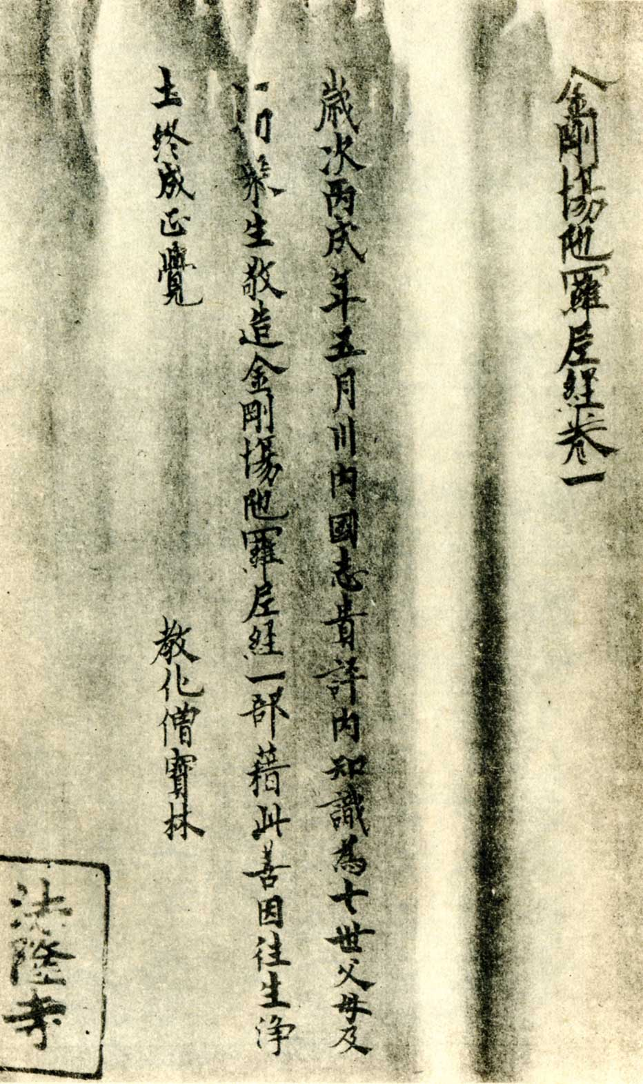 Kongo-badarani